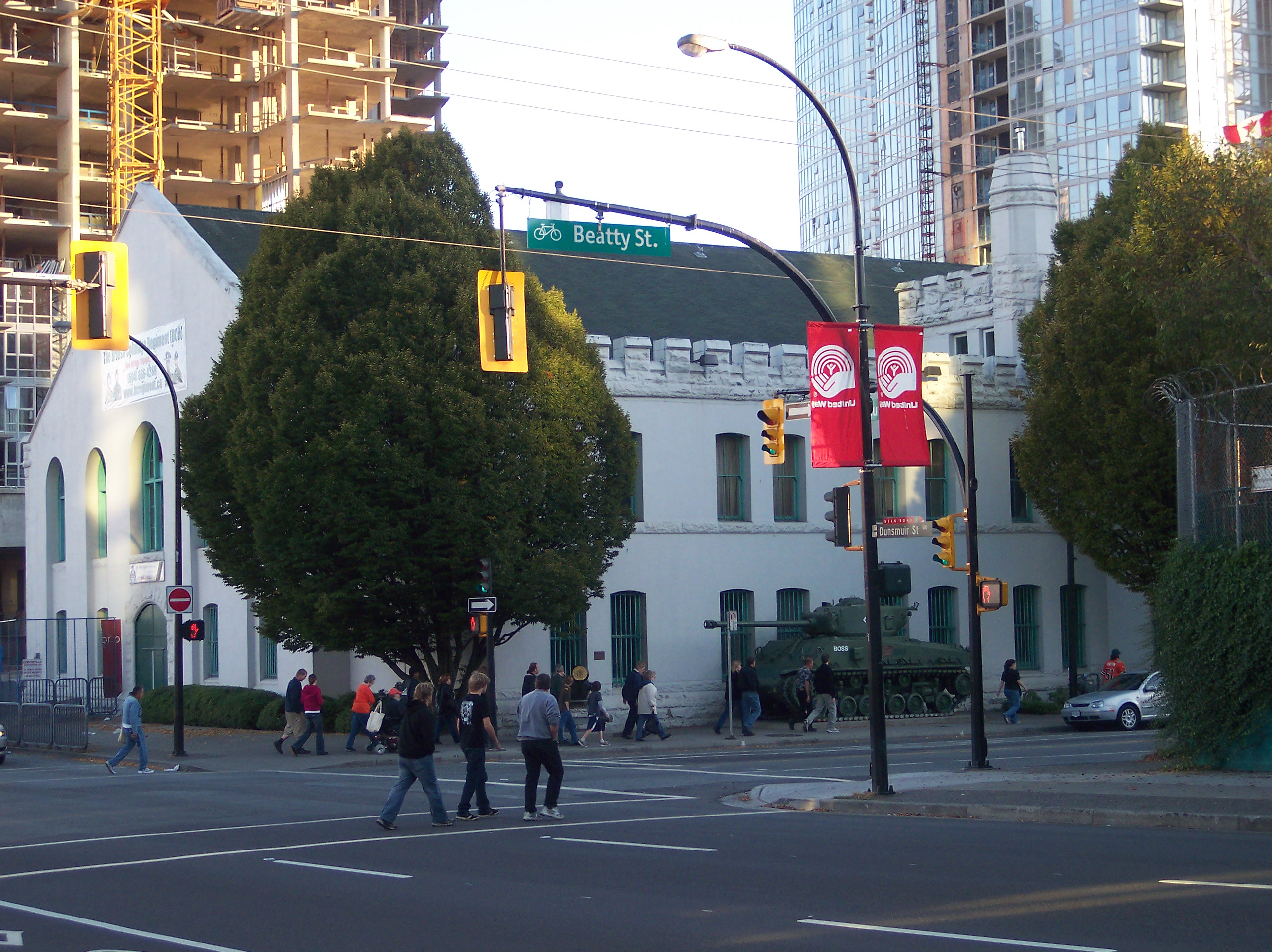 Beatty Street Drill Hall, Vancouver, BC, Canada